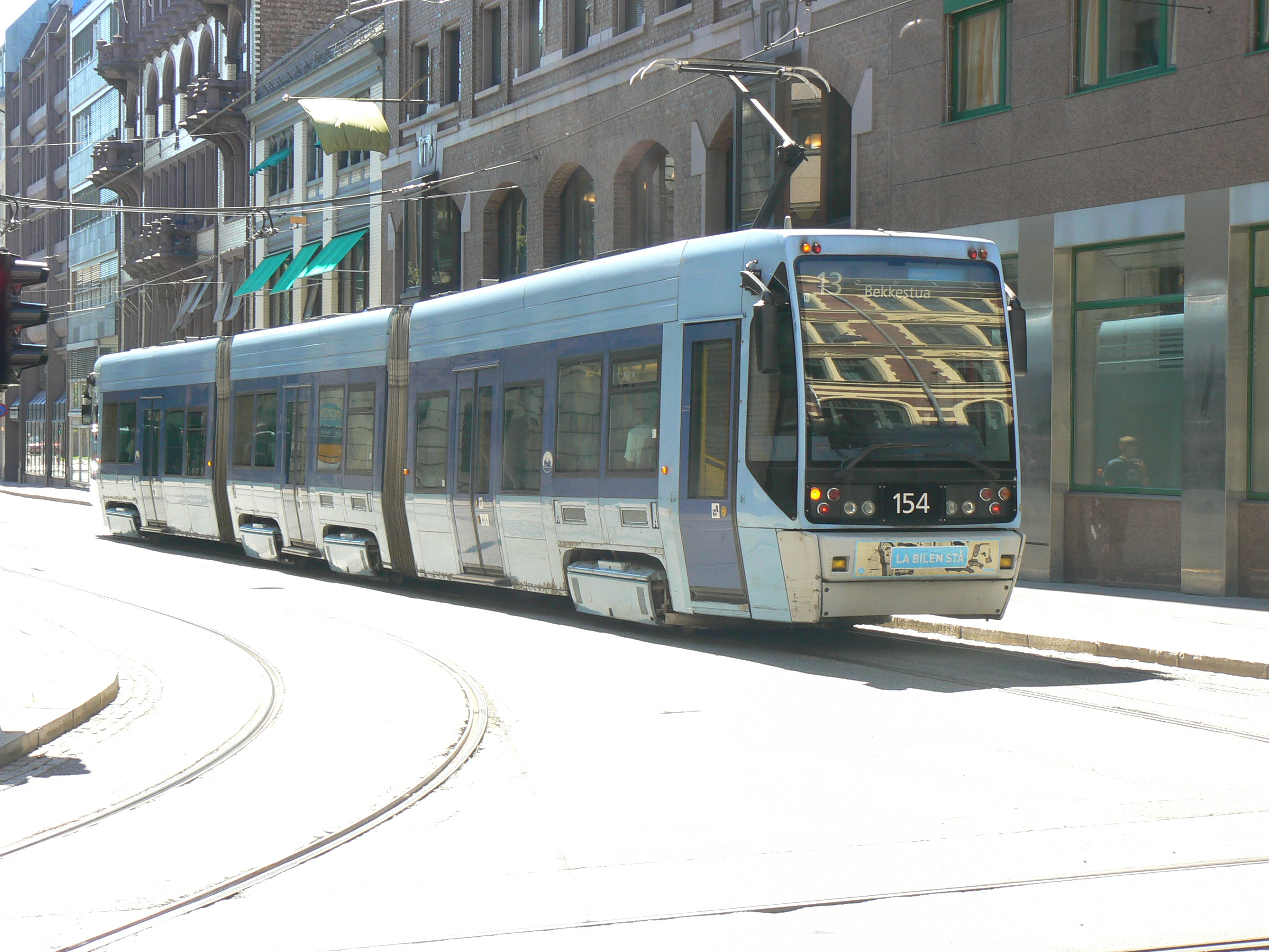 Tram in central Oslo, Norway